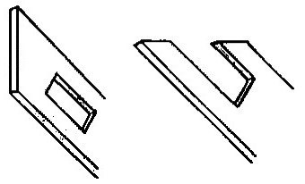 Male and female chigi (roof decoration)